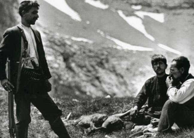 Expedition to mount Olympus of 1913, in the photo Frédéric Boissonnas, Daniel Baud-Bovy and Frédéric Boissonnas.